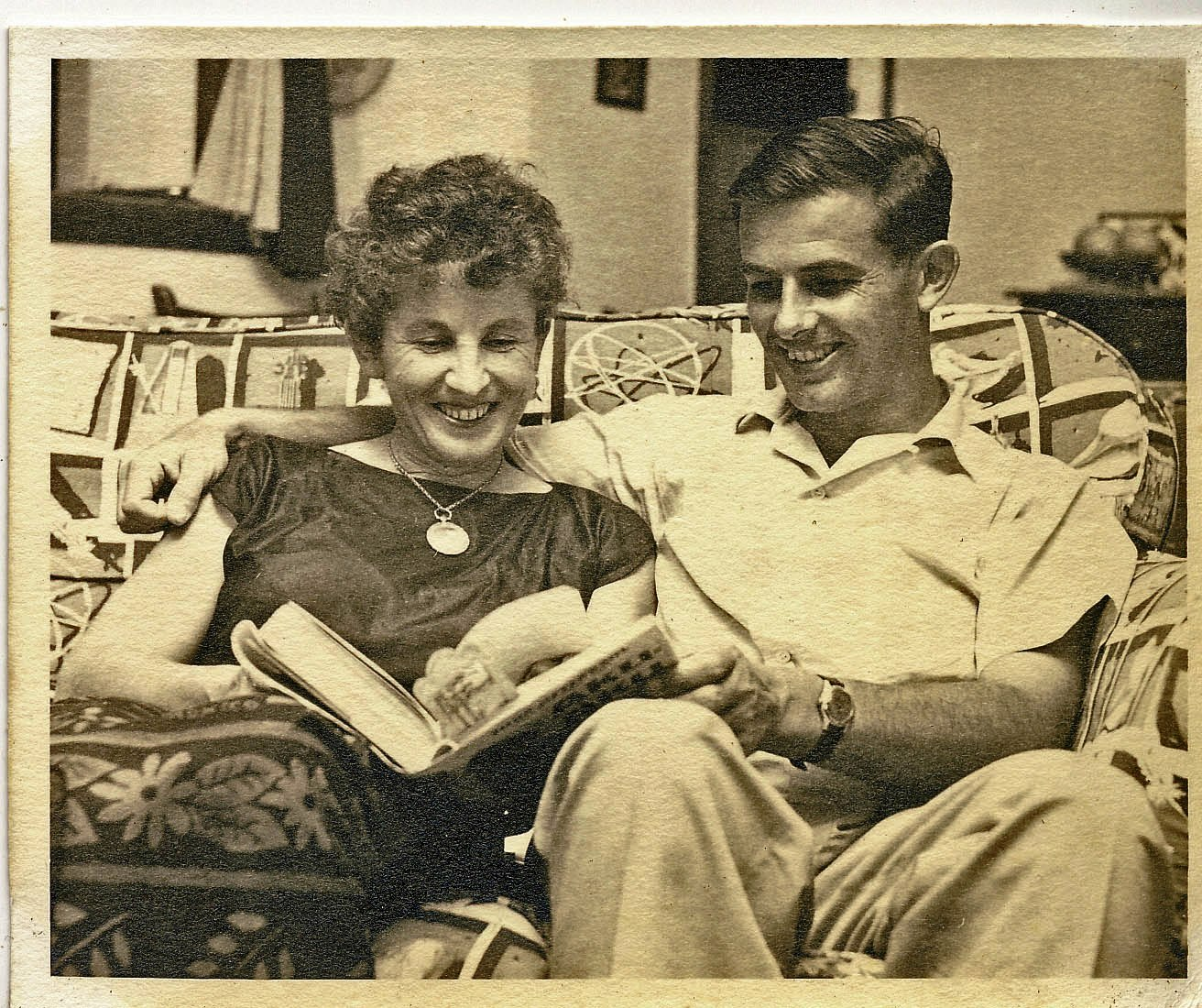 David and Barbara Snow, Simla, Trinidad, circa 1959 I inherited this photo from my father, Dr. A. E. Hill, now deceased, who took it and printed it.